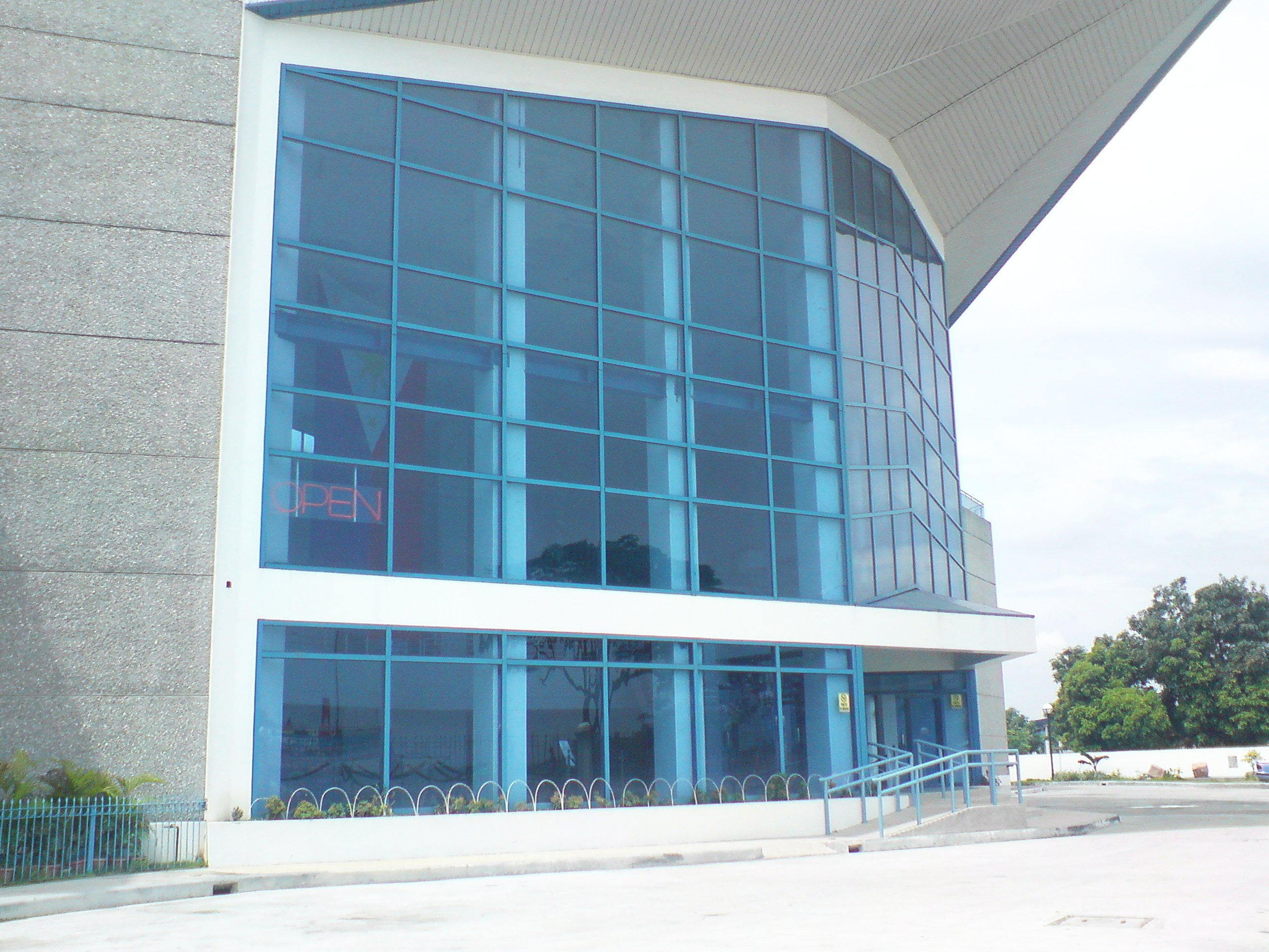 The main entrance to the Philippine Air Force Aerospace Museum building